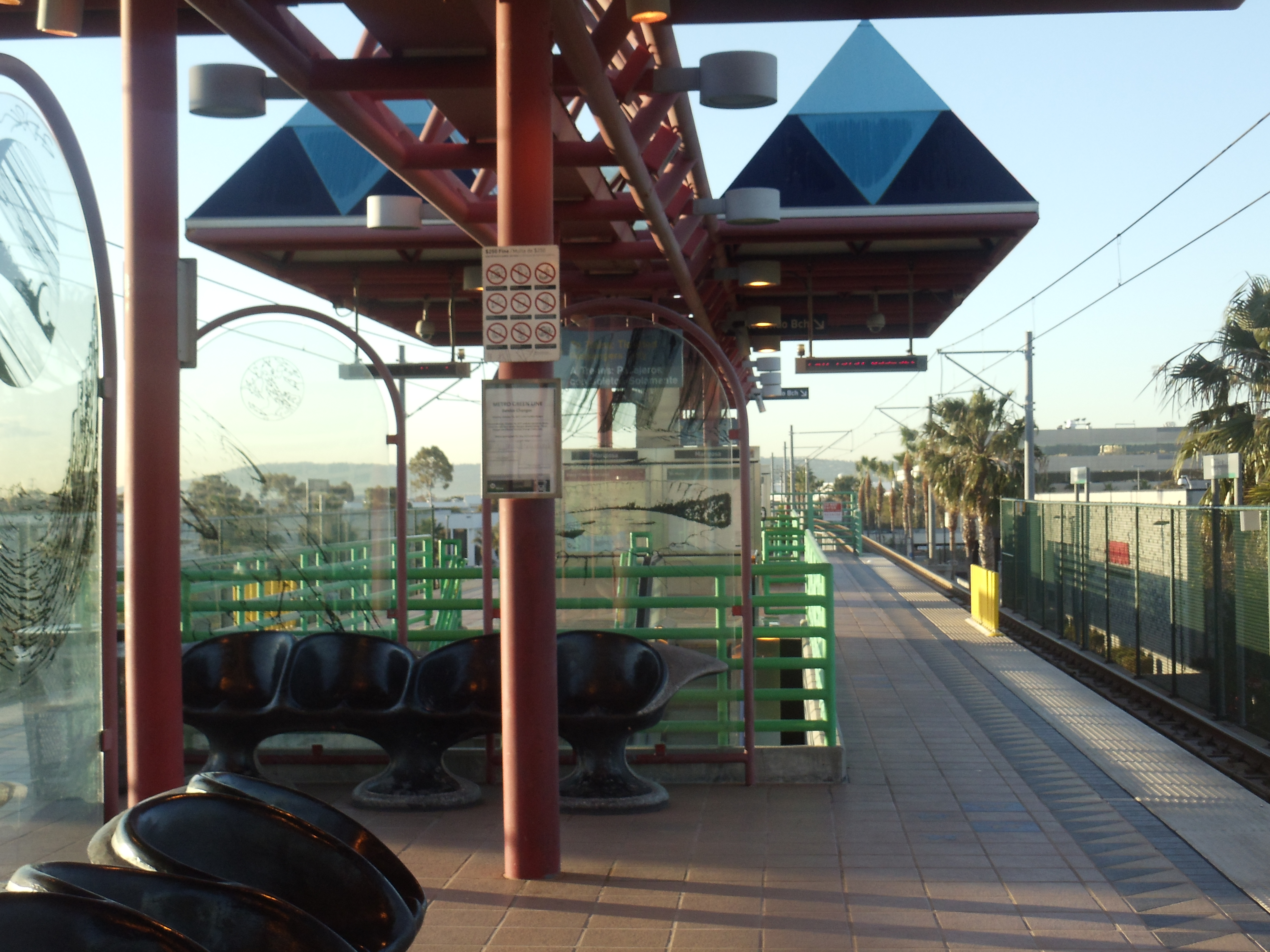 Station overview.